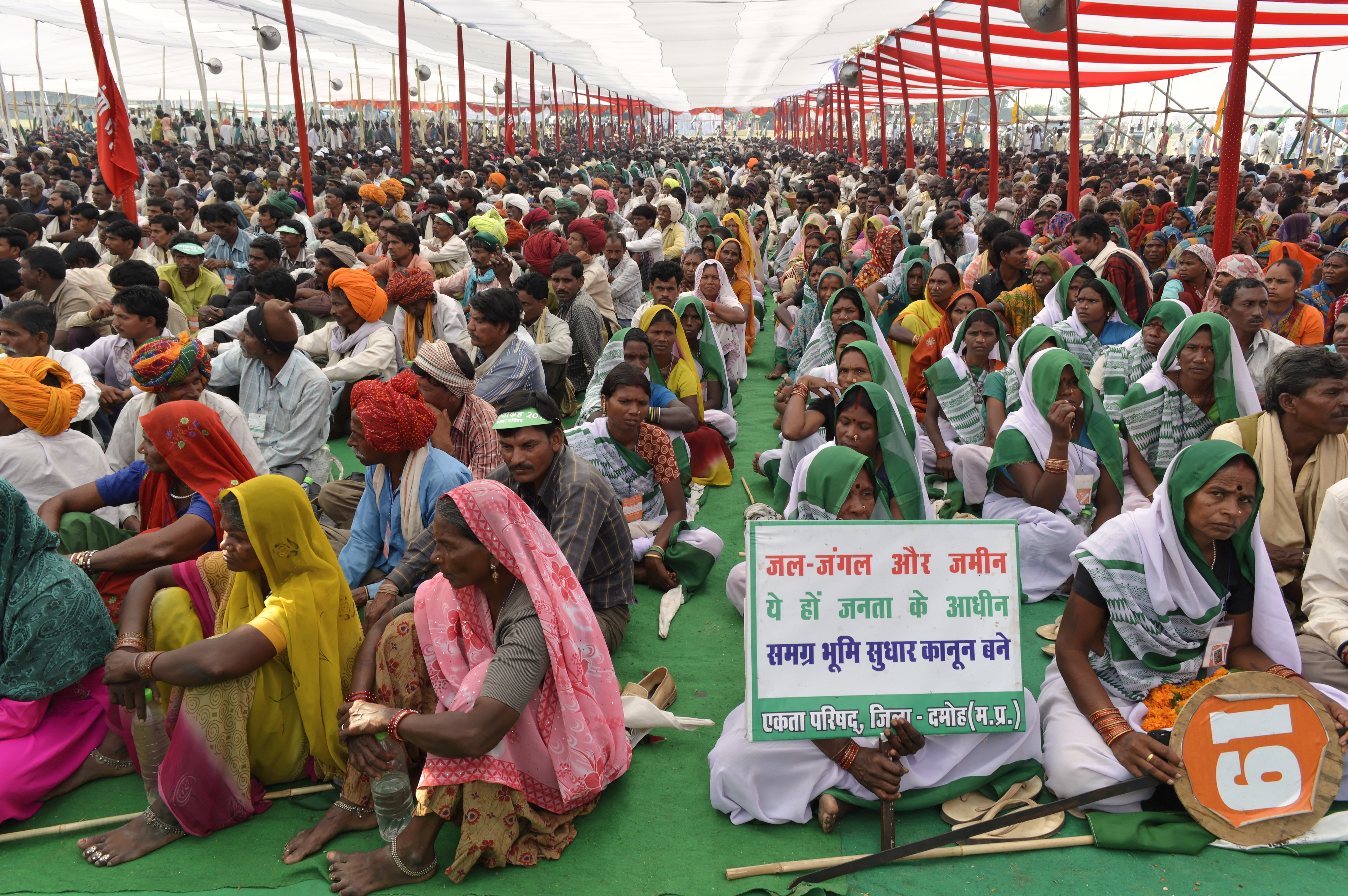 Jan Satyagraha 2012 meeting at Agra, India.